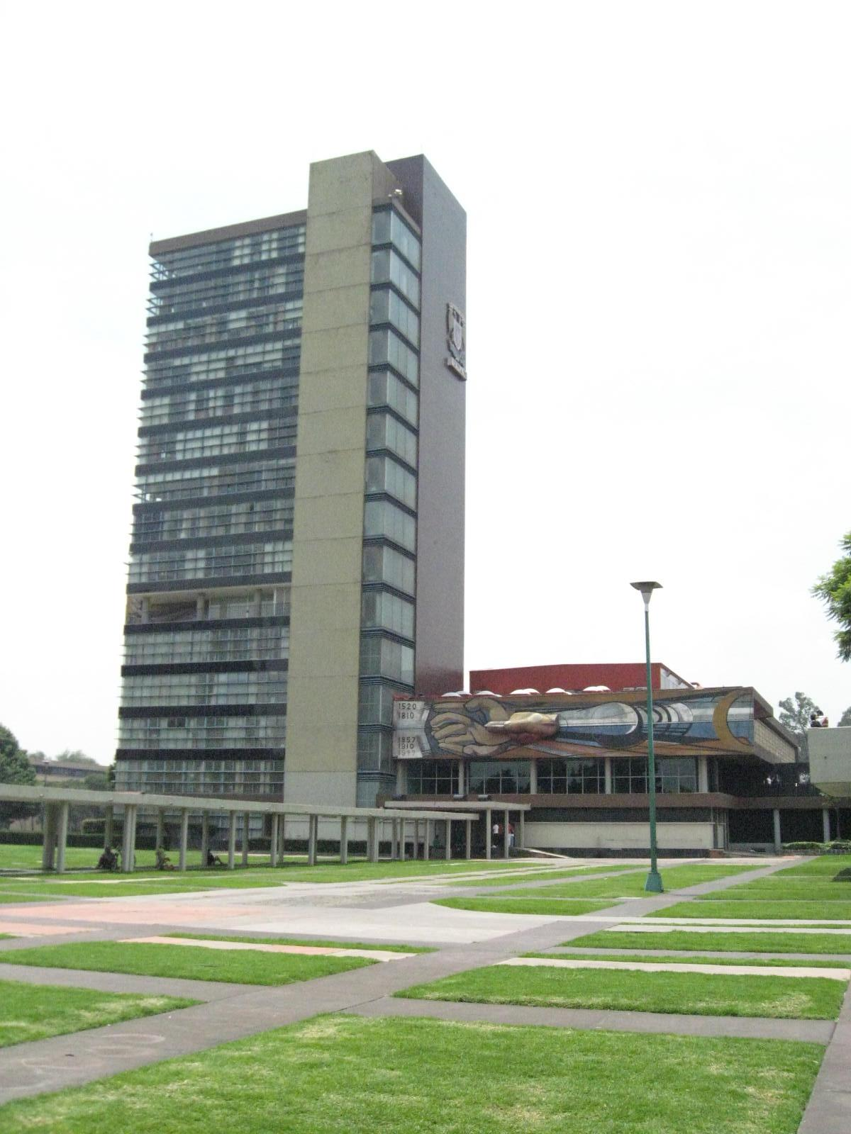 A view of the main administration building at the Ciudad Universitaria in Mexico City.